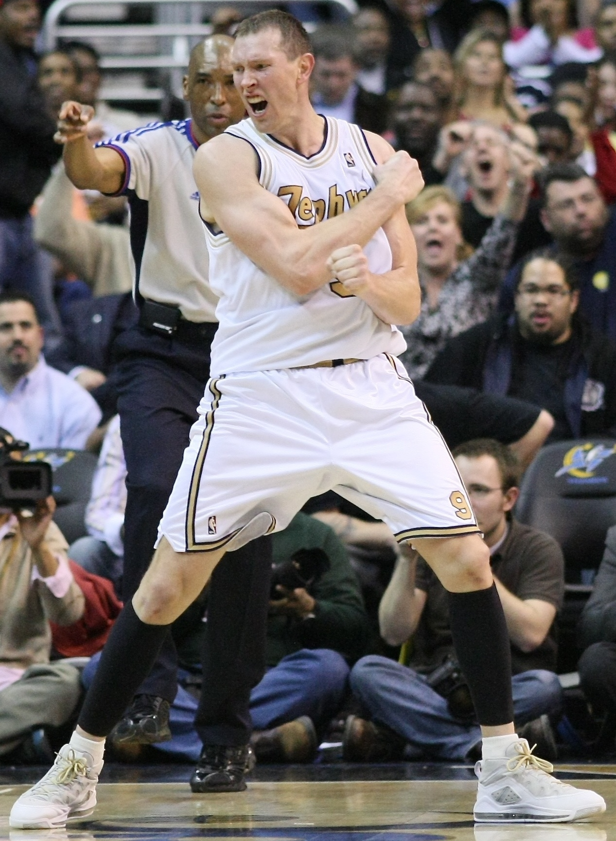 Darius Songaila during his tenure with the Washington Wizards.